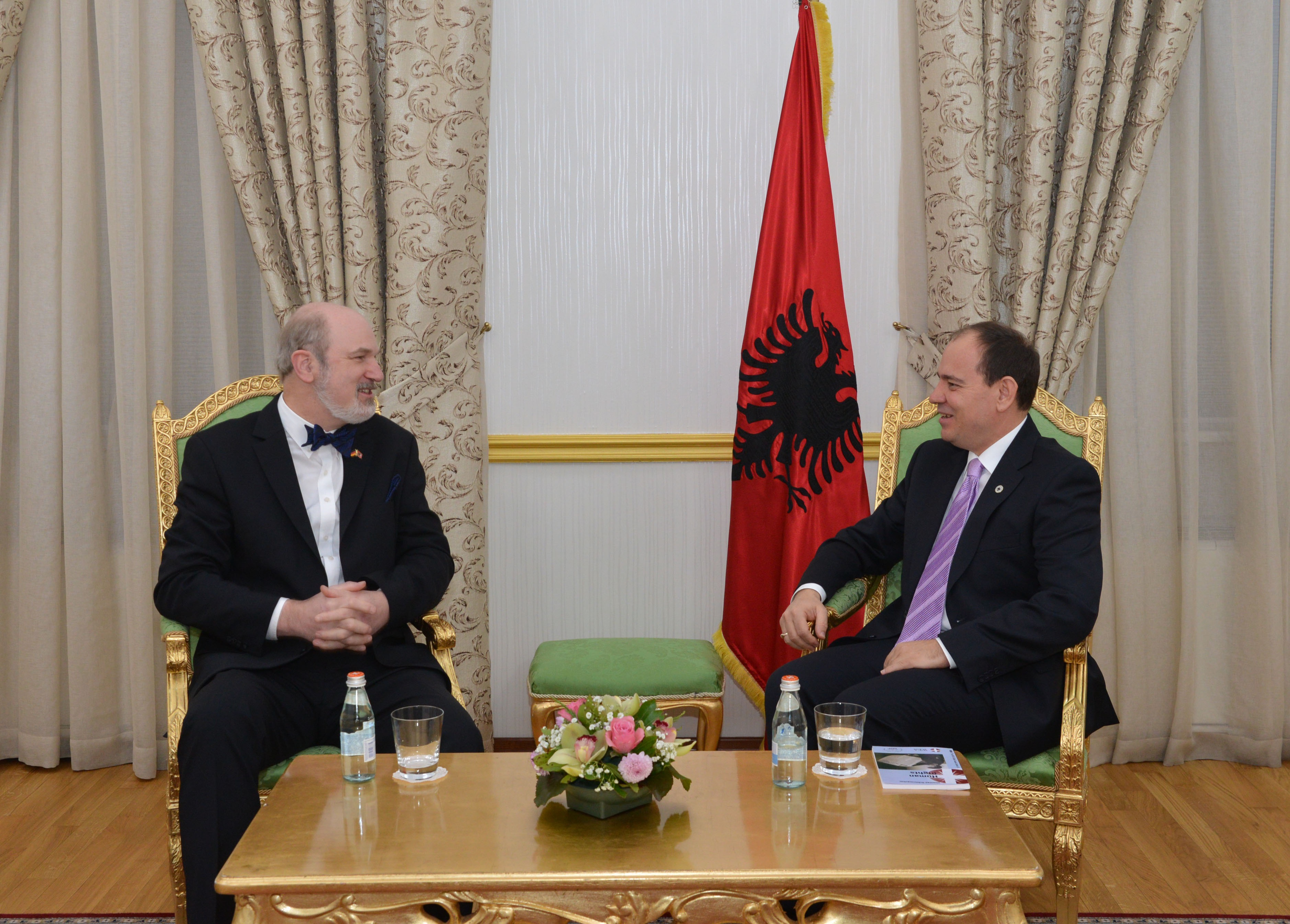 Thomas Schirrmacher visiting the President of Albania Bujar Nishani 19/10/2015